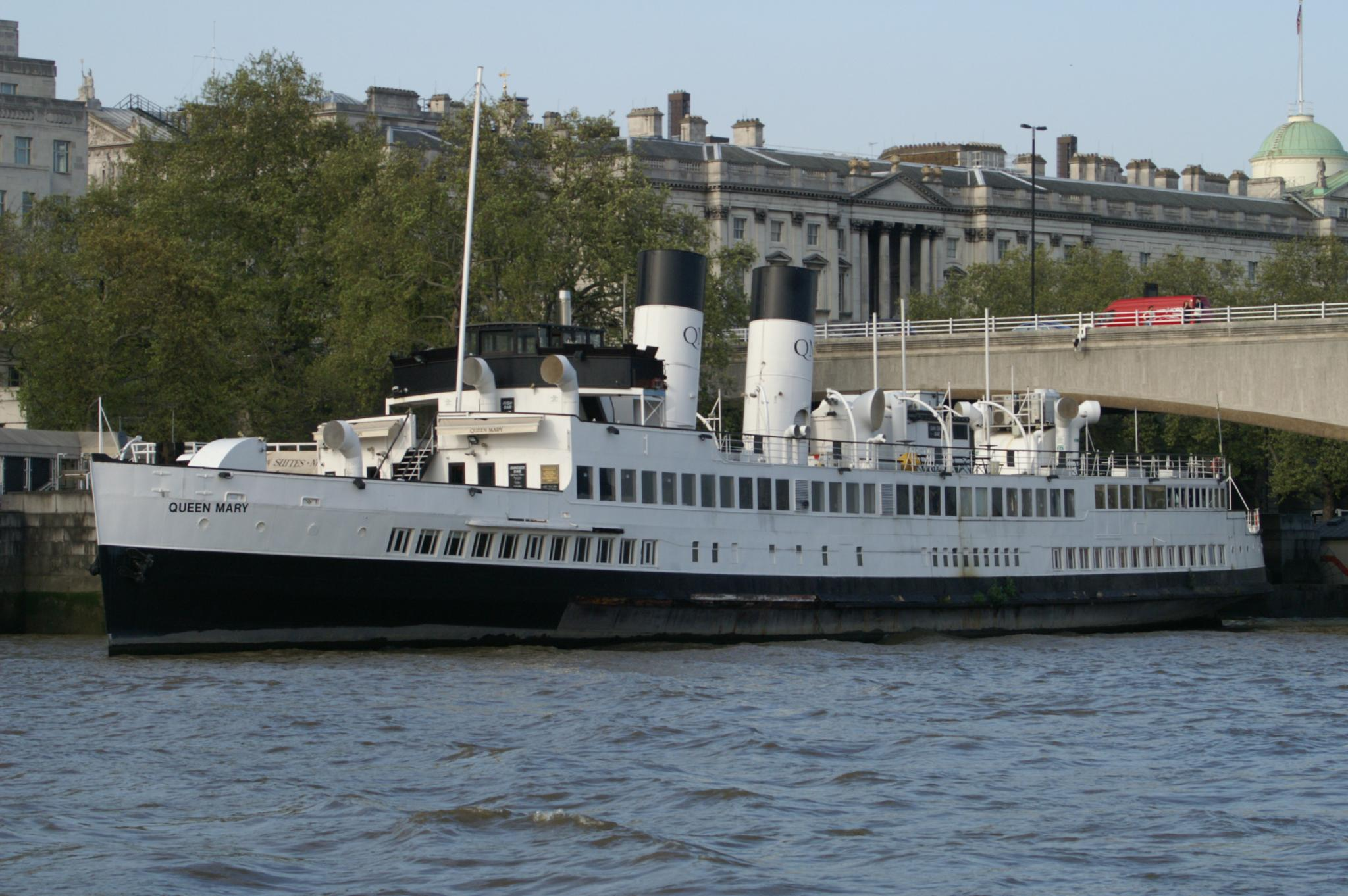 Floating Pub on the Thames